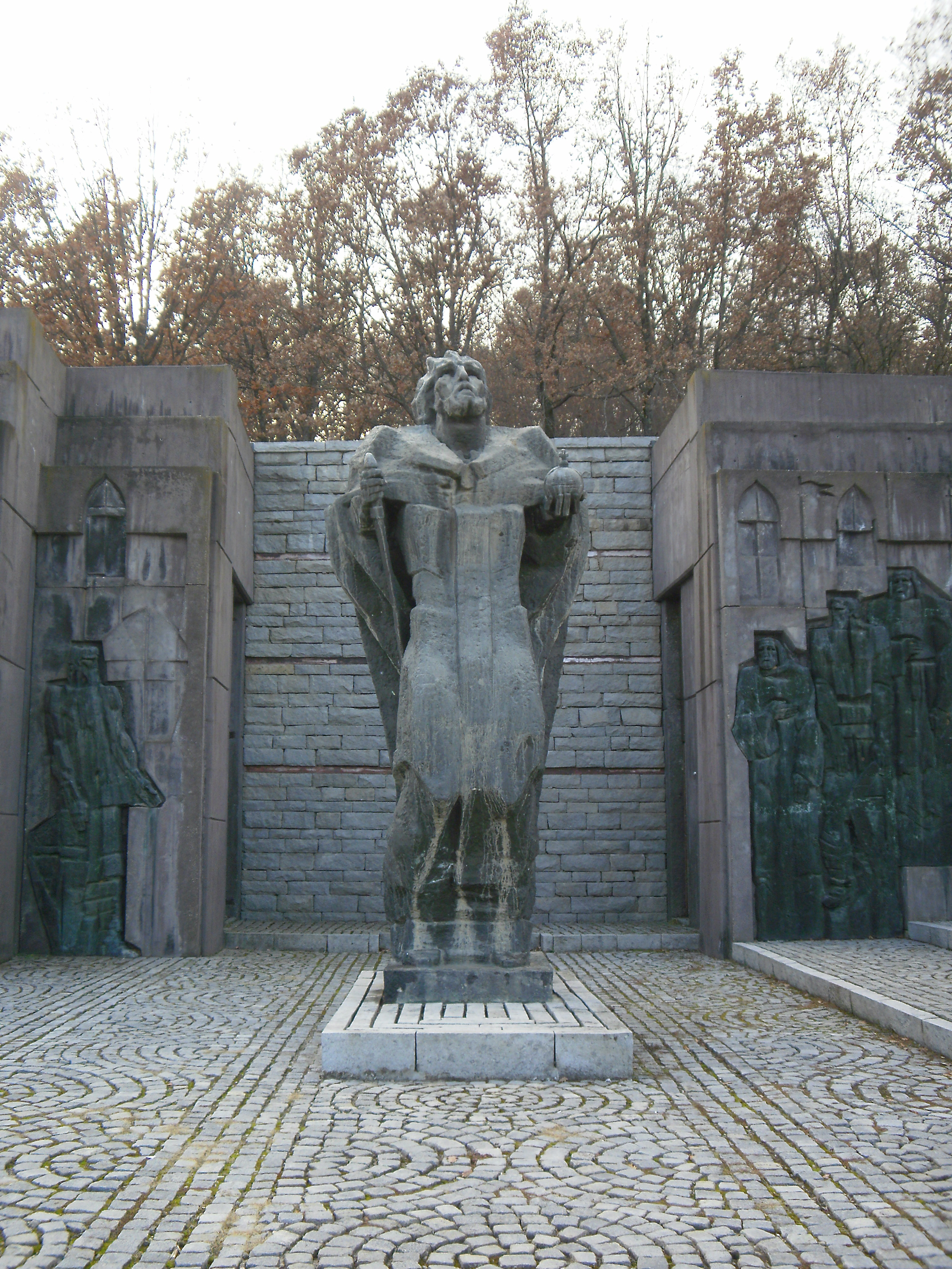 Samuel Monument, Samouil's fortress, Bulgaria.